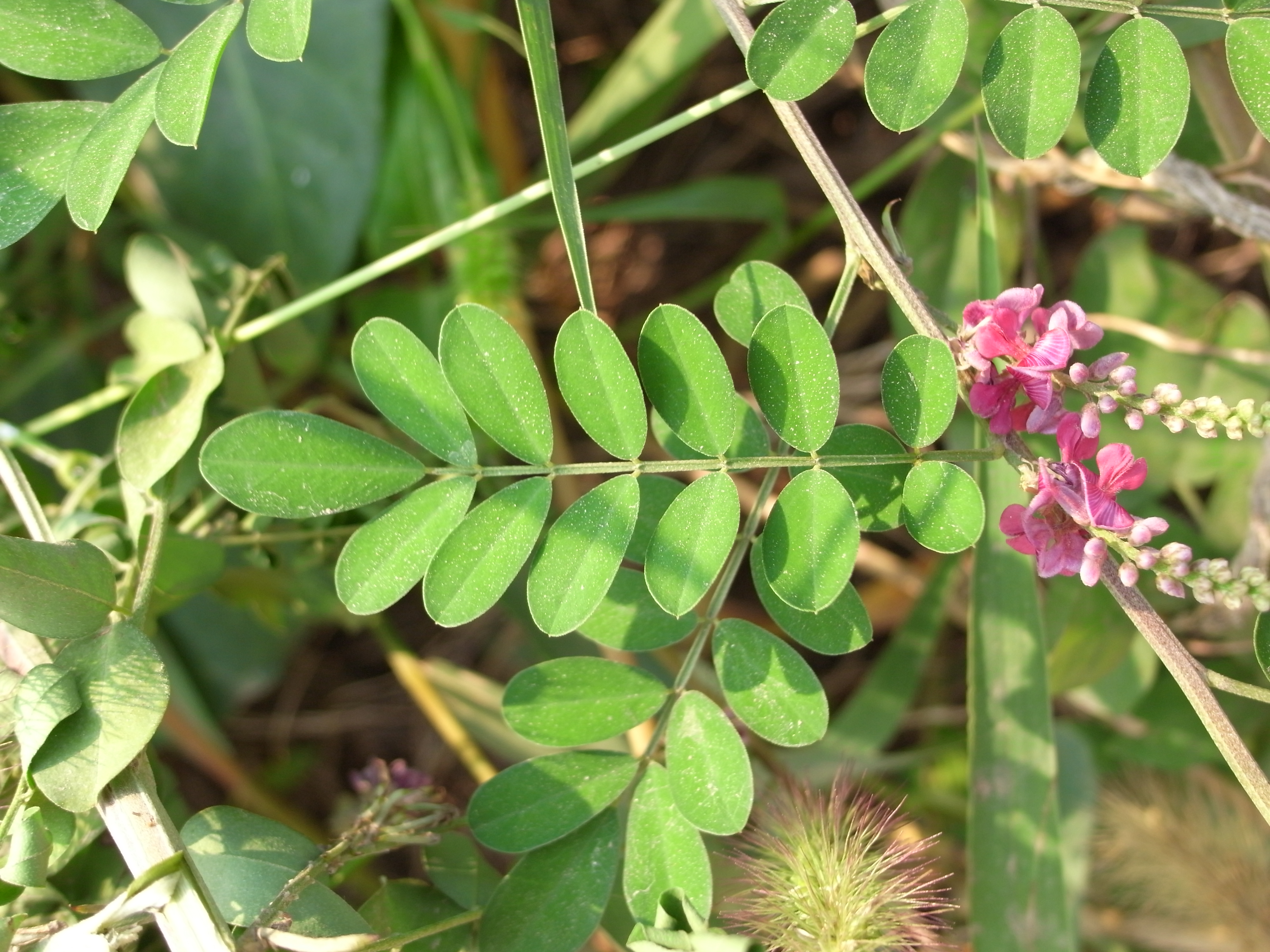 Indigofera pseudotinctoria